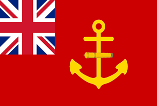 My own work using MS Paint 2015, Photoshop 2018 and Lunapic Transparency editor. The Transport Board later renamed the Transport Branch whose emblem featured 'greater anchor that is crossed by a cannon'. The image is based upon an illustrative plate image of the Transport Flag in 1832 is from the book by John William Norie (Hydrographer) published in 1832. The flag of the Transport Branch is on page II (2) image No 40. Source here: : Descriptive of the Maritime Flags of All Nations Front Cover by John William Norie: J. W. Norrie and Co were chart sellers to the British Admiralty, East India Company and Trinity House